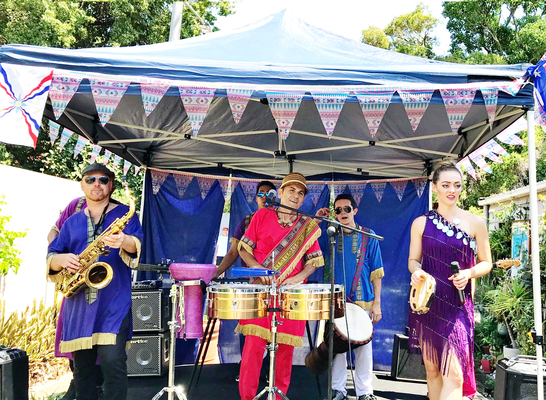 Assyrian Australian band Azadoota, founded in Sydney.